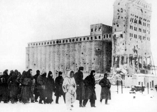 Captured German soldiers being lead to prisoner camps in Stalingrad, 1943. The grain elevator and silos are in the background.